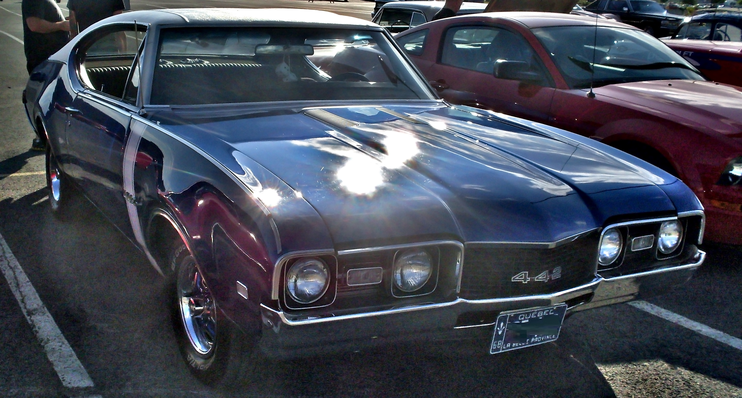 1968 Oldsmobile 442 photographed in Laval, Quebec, Canada at Les chauds vendredis.